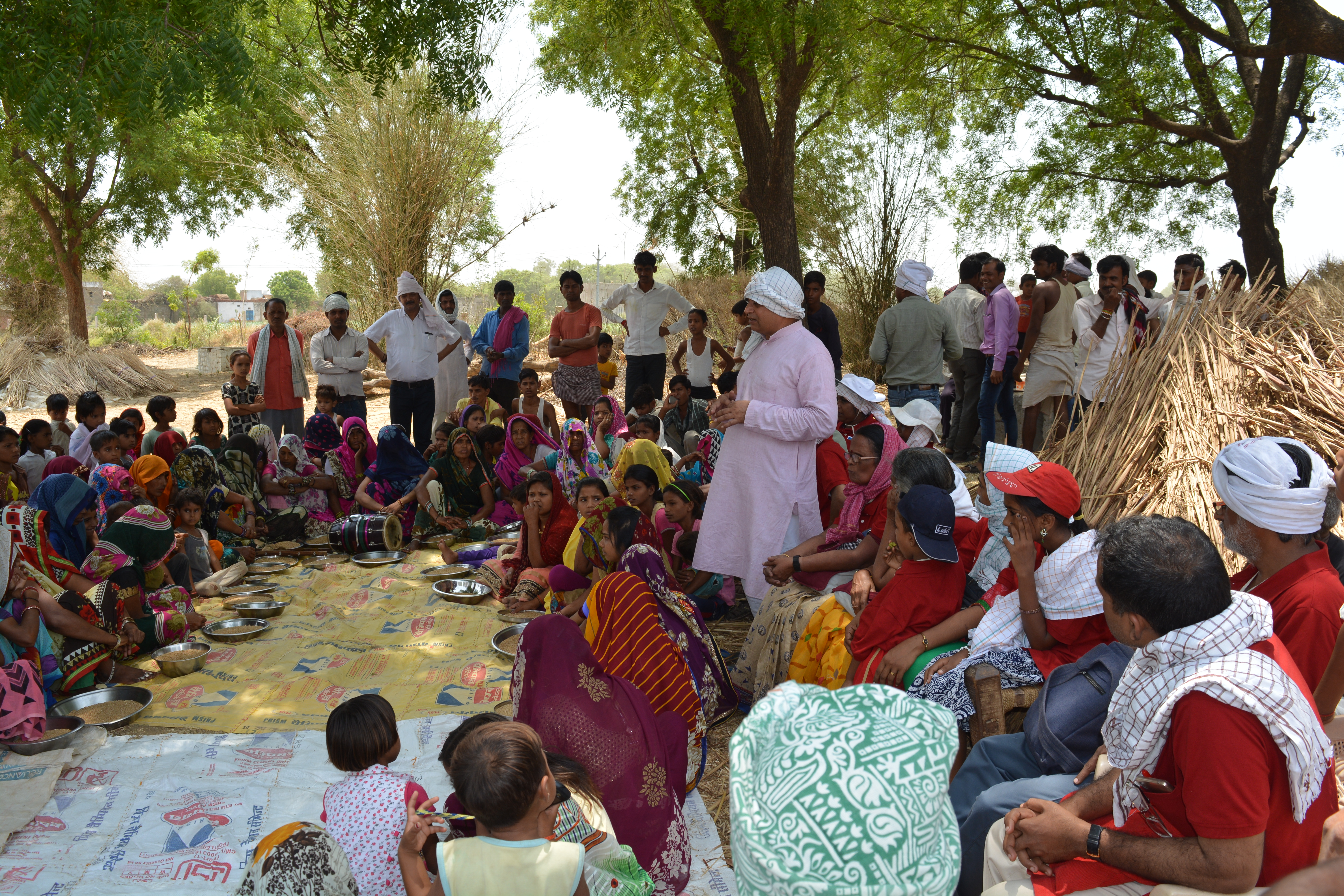 Said to be Gram Panchayat